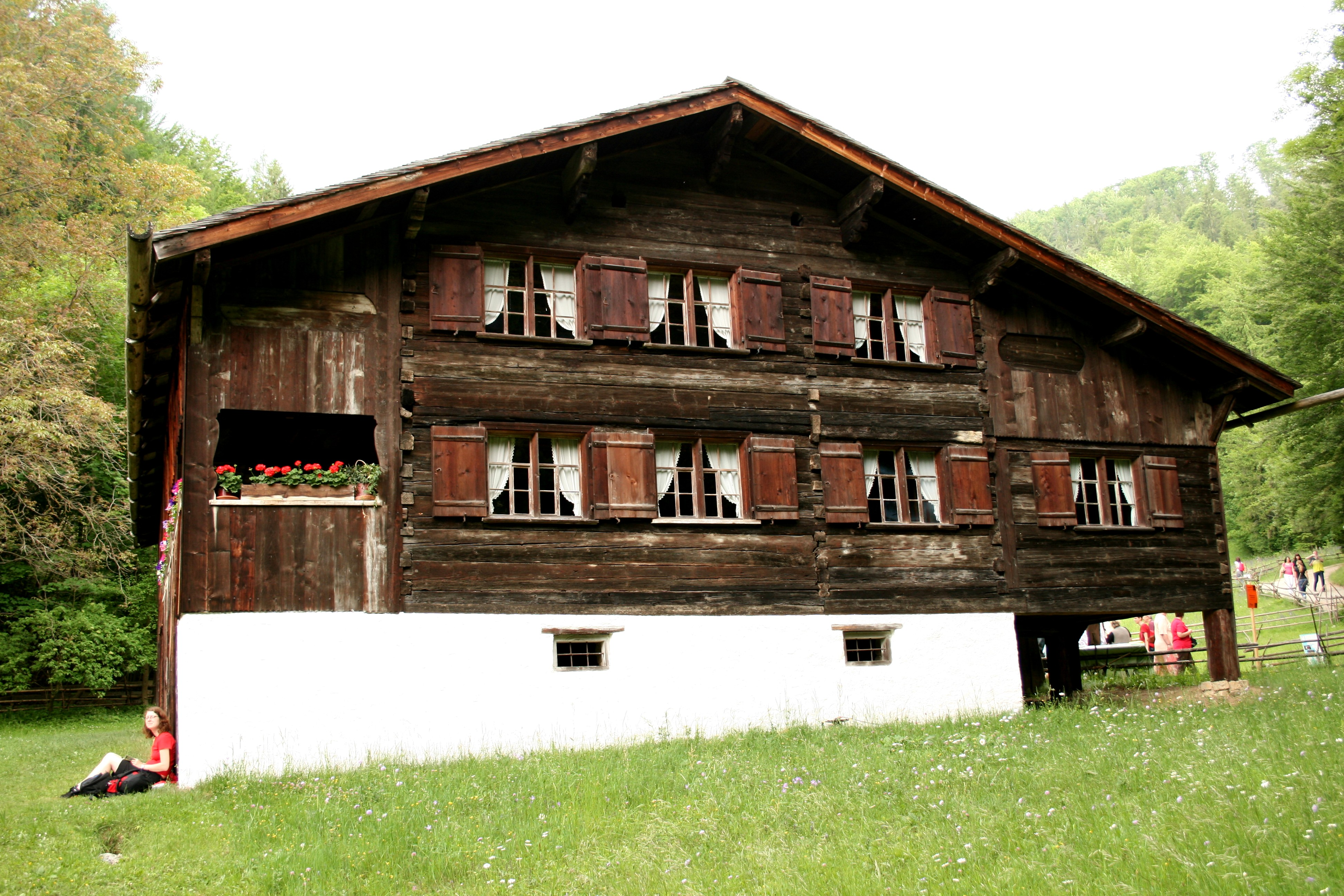 "Bregenzerwälderhaus" in Stübing, Austria, Europe